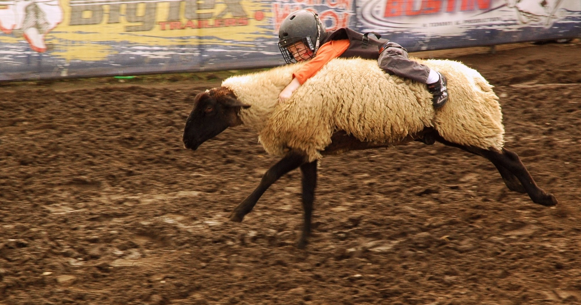 At the Puyallup fair people actually pay money to let their 2-6 year old child ride on the back of a sheep. The goal is 8 seconds, most kids fall off within the first couple seconds.